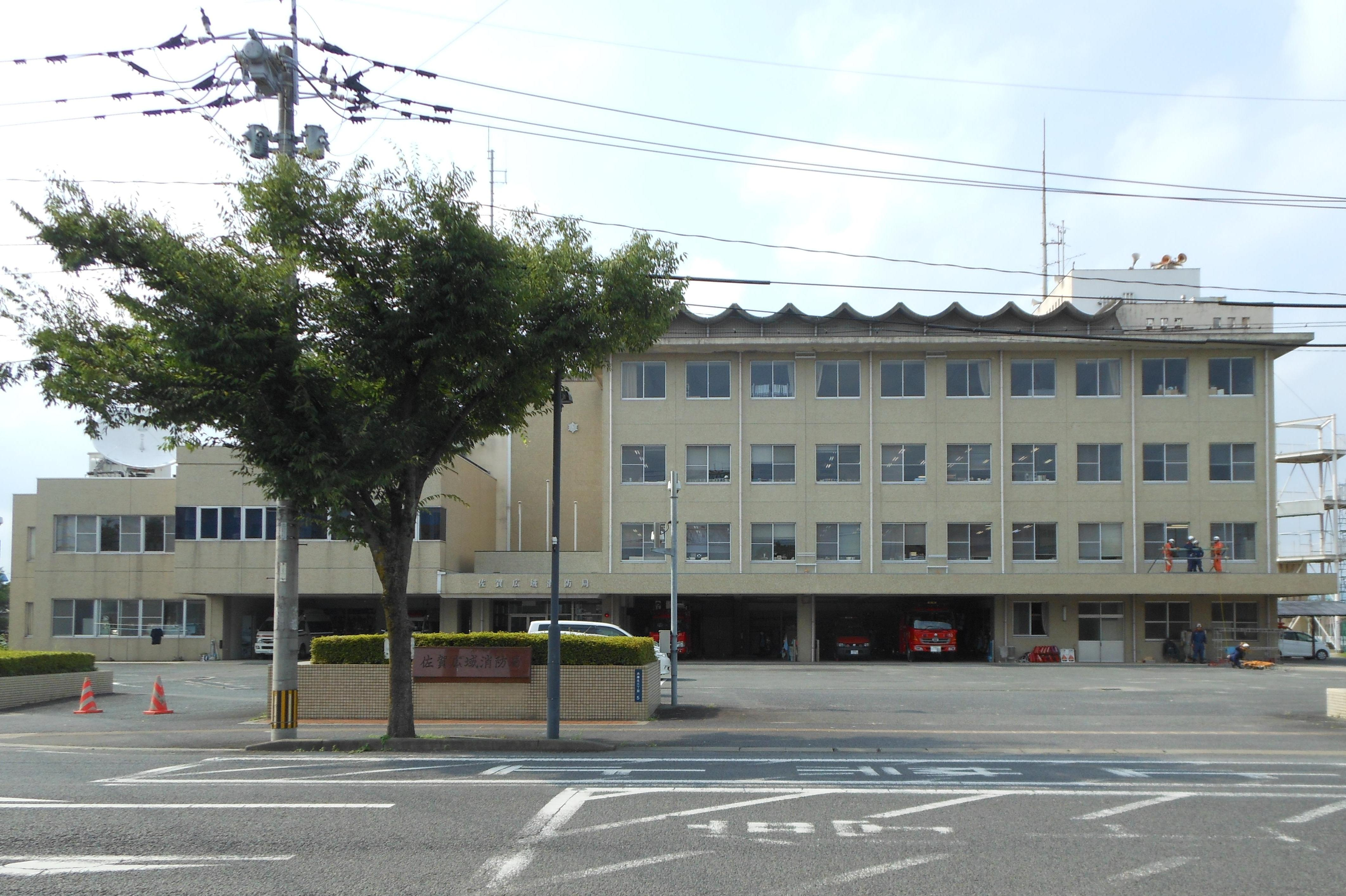 The headquarters of Saga Wide Area Fire Prevention Bureau (Saga Kōiki Shōbōkyoku).